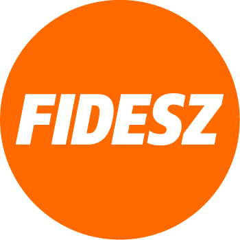 Fidesz’s newest logo.